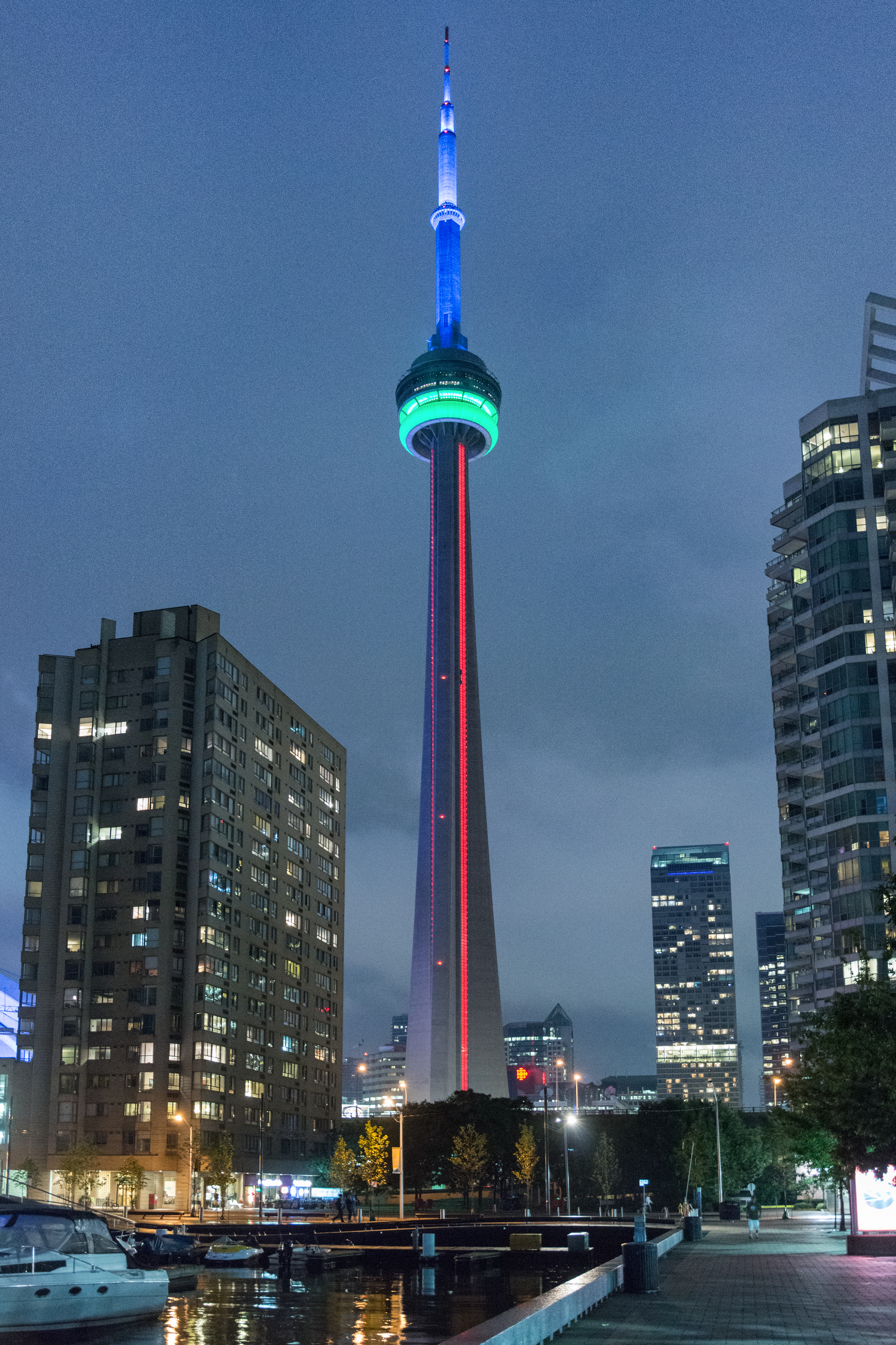 CN Tower - Toronto, Ontario, Canada